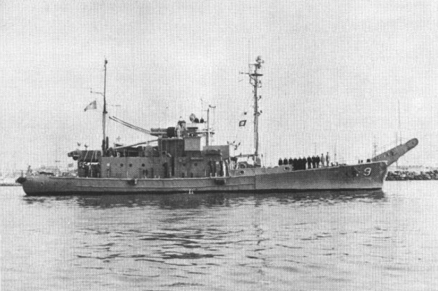 The U.S. Navy net layer USS Butternut (AN-9) in 1965. She was the third oldest ship in continuous active duty at that time. Butternut had been completed in September 1941.